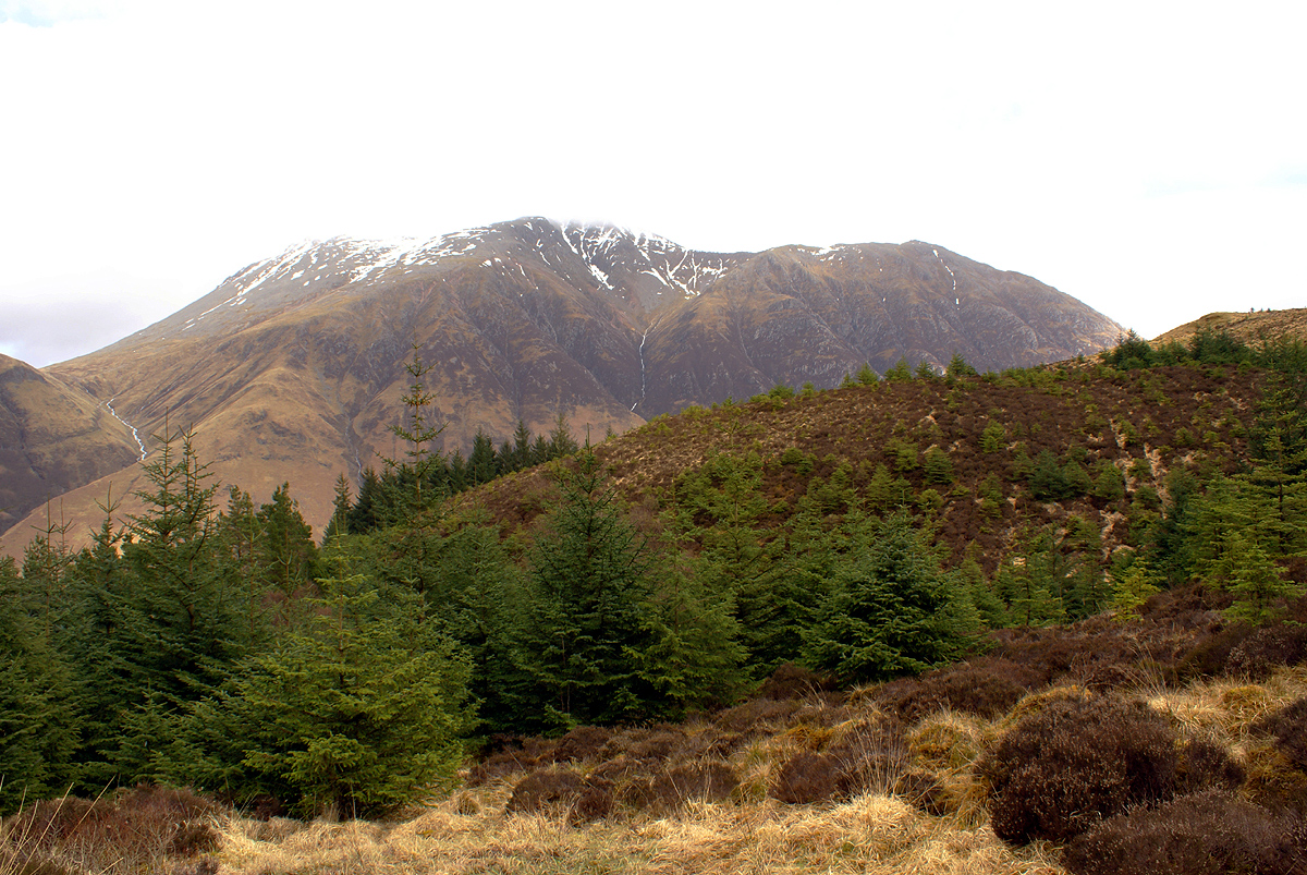 Ben Nevis, highest mountain of Great Britain (1344 m), seen from West Highland Way on the way from Kinlochleven to Fort William